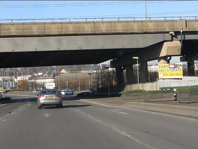 M6 viaduct, Bromford Lane roundabout